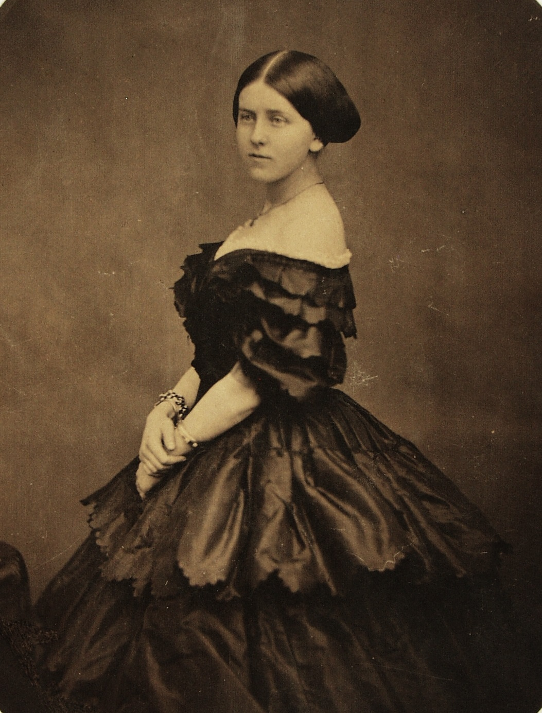 Stephanie, Queen of Portugal